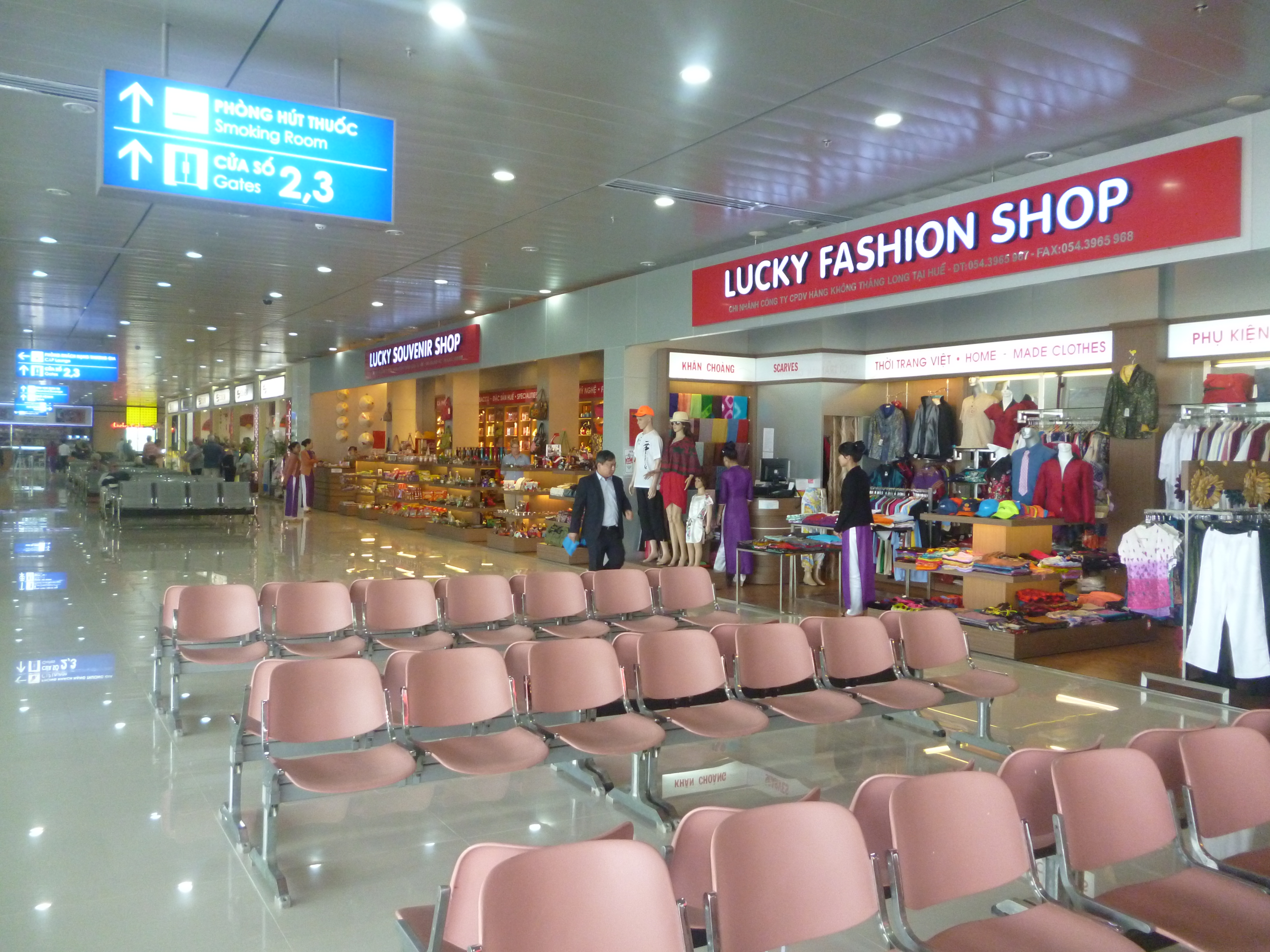 Waiting room at Phu Bai airport, Hue